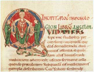 Illuminated initial from the beginning of the prologue to Anselm's Monologion, late 11th century. Preserved at the Bibliothèque municipale de Rouen.